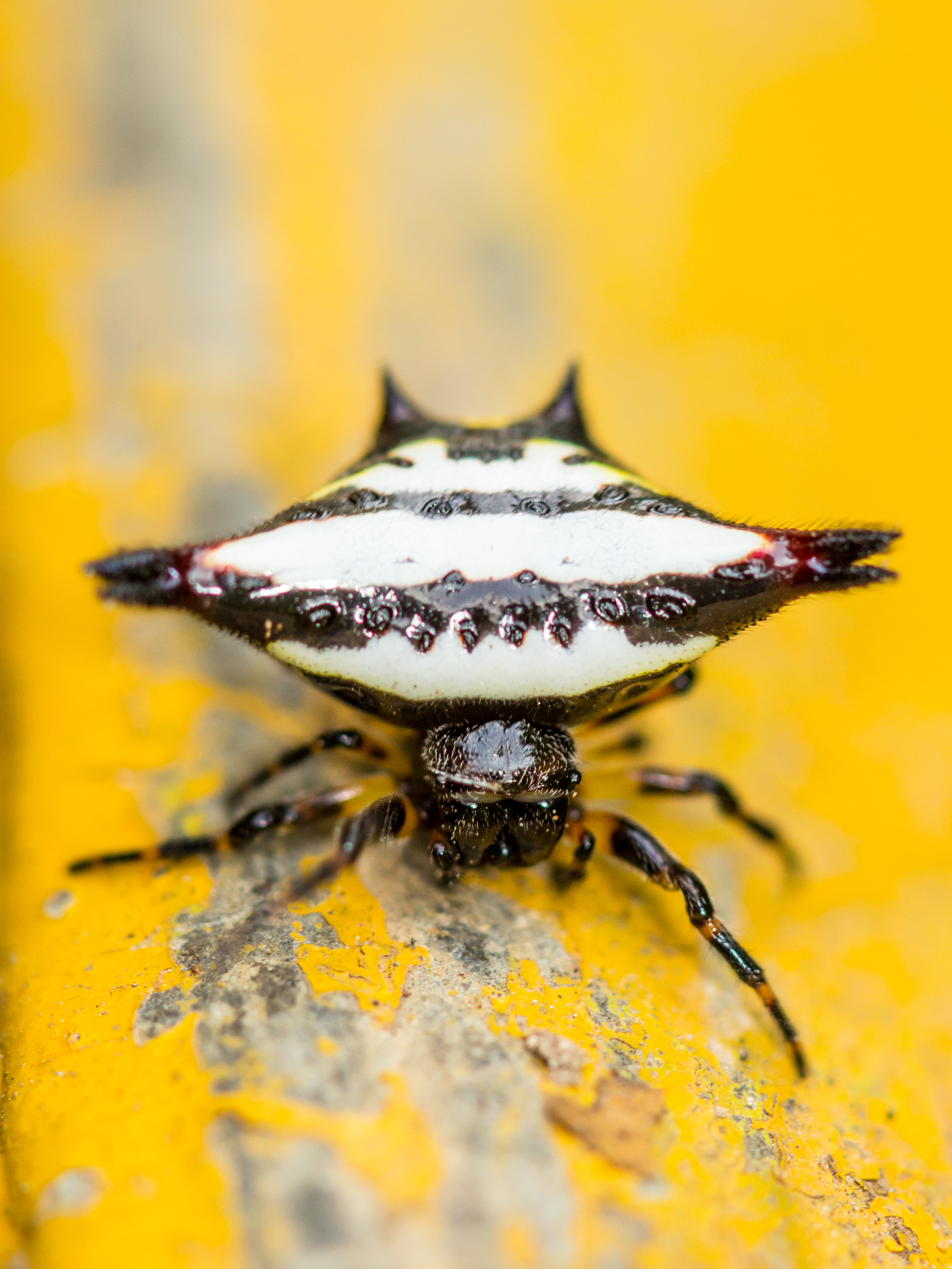 Gasteracantha geminata spider shot in Lalbagh botanical garden, Bangalore.